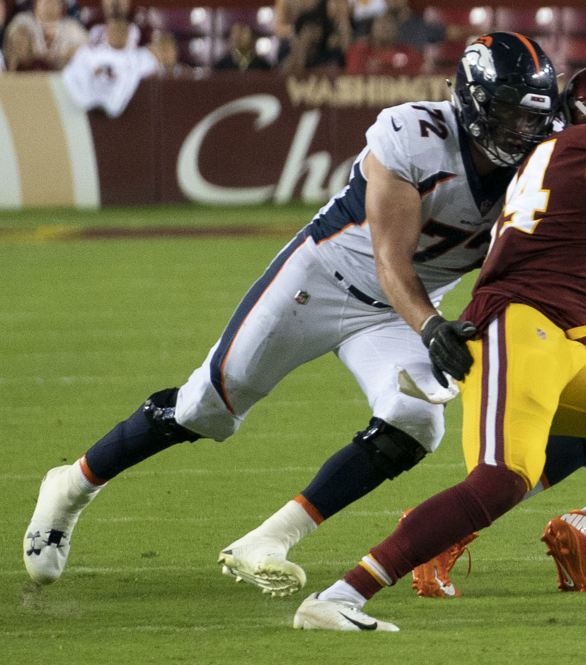 Broncos at Redskins 8/24/18